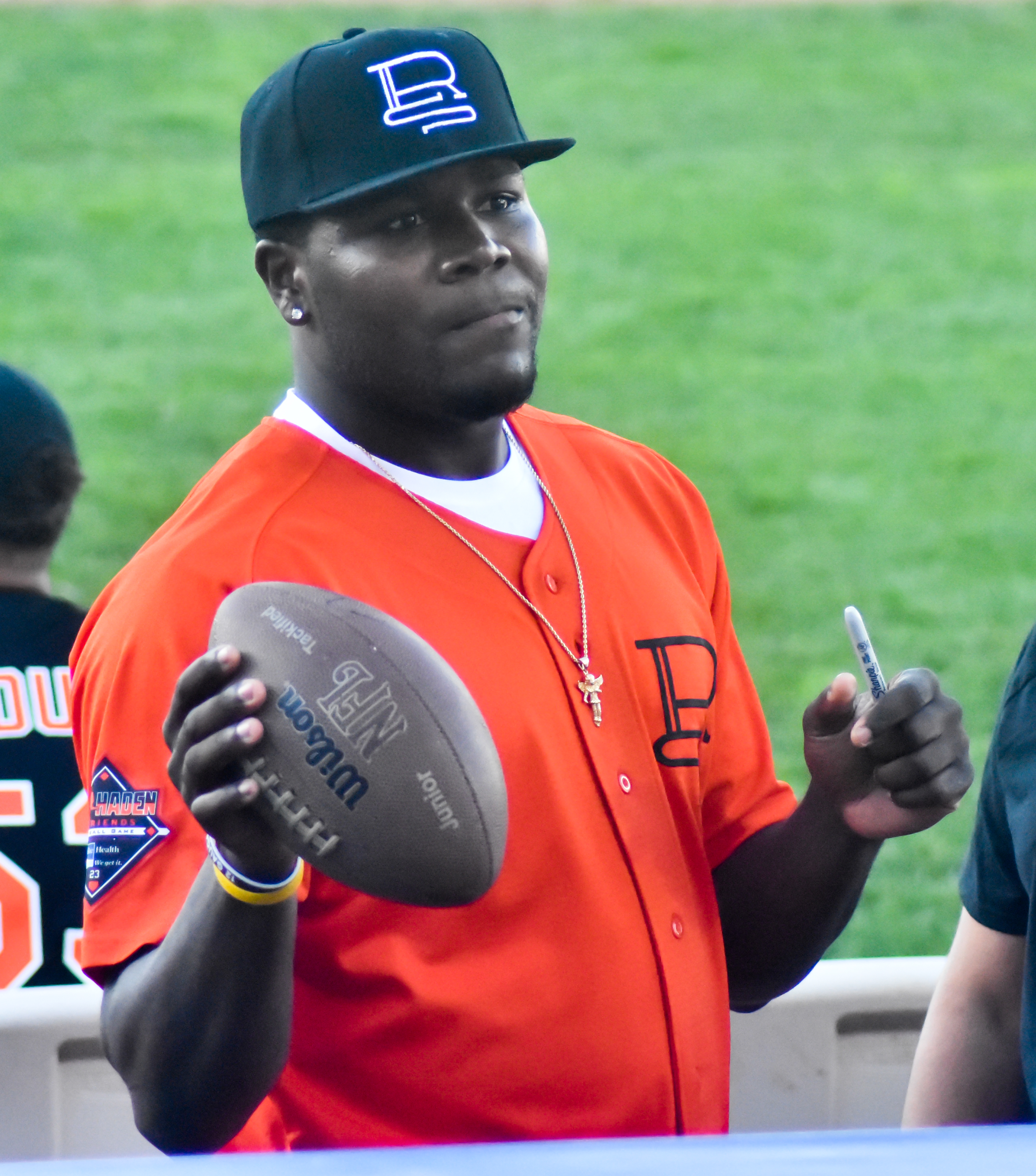 Cardale Jones